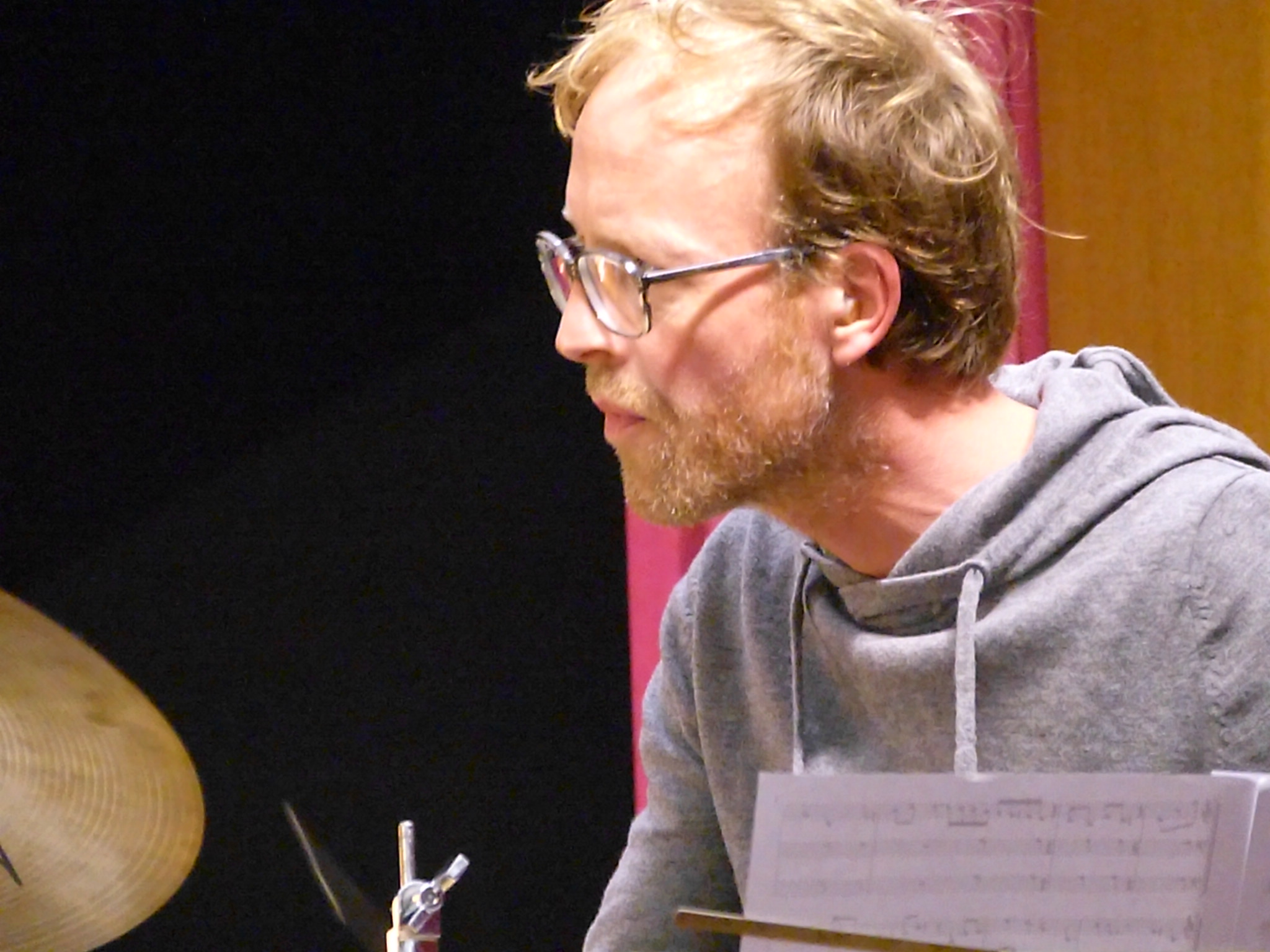 Christian Thomé in concert „Live Remix“ with ‚Tonstrom Quartett & Alex Gunia’ at Thyssen Foundation, Cologne, Germany, during the event „Cologne Music Night“ , September 19th, 2015